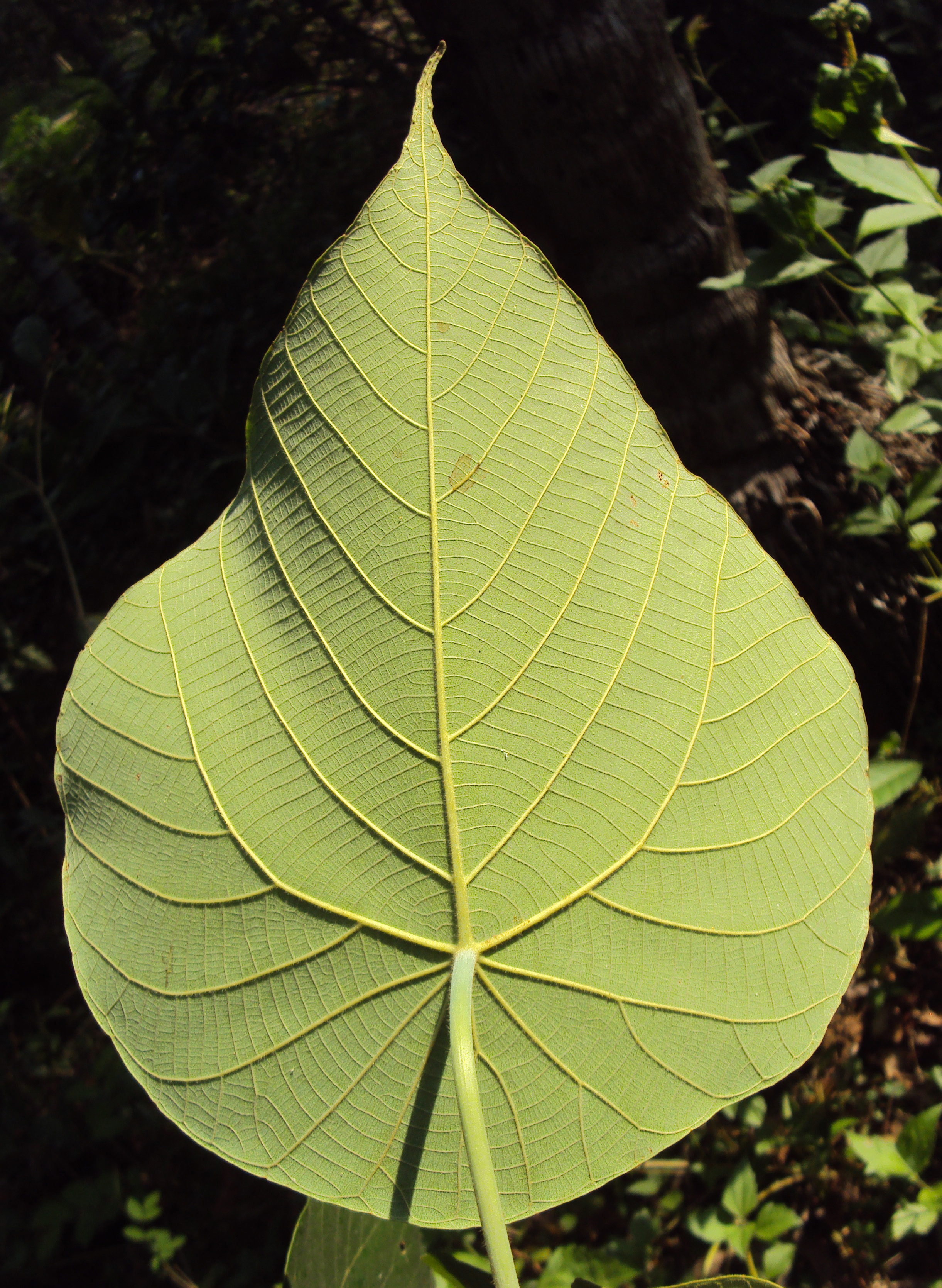 Macaranga peltata